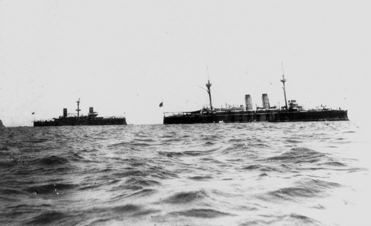 Spanish Navy armored cruisers Cristóbal Colón (left) and Vizcaya at São Vicente sometime between 19 April 1898 and 29 April 1898.